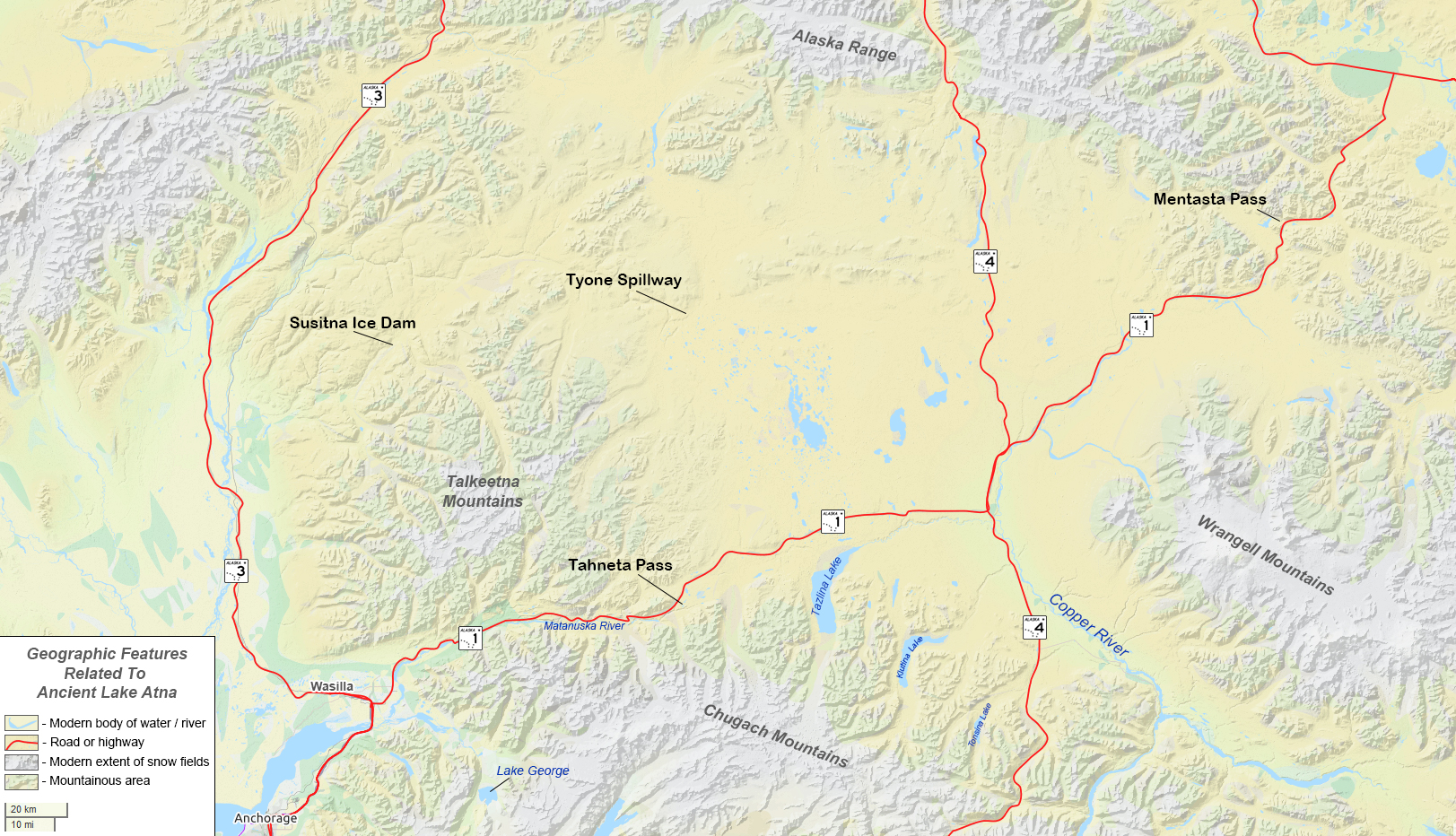 The image shows geographic features related to ancient Lake Atna. This map may be incomplete, and may contain errors. Don't rely solely on it for navigation.